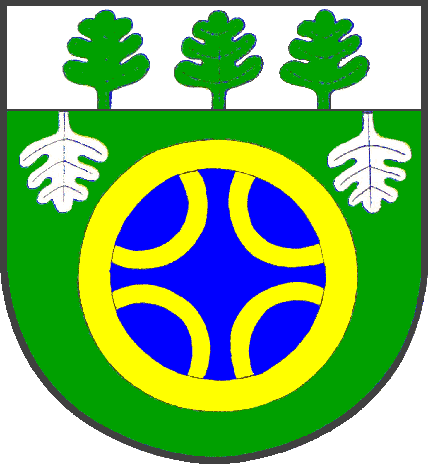 Coat of arms of the municipality Schuby in Schleswig-Holstein, Germany